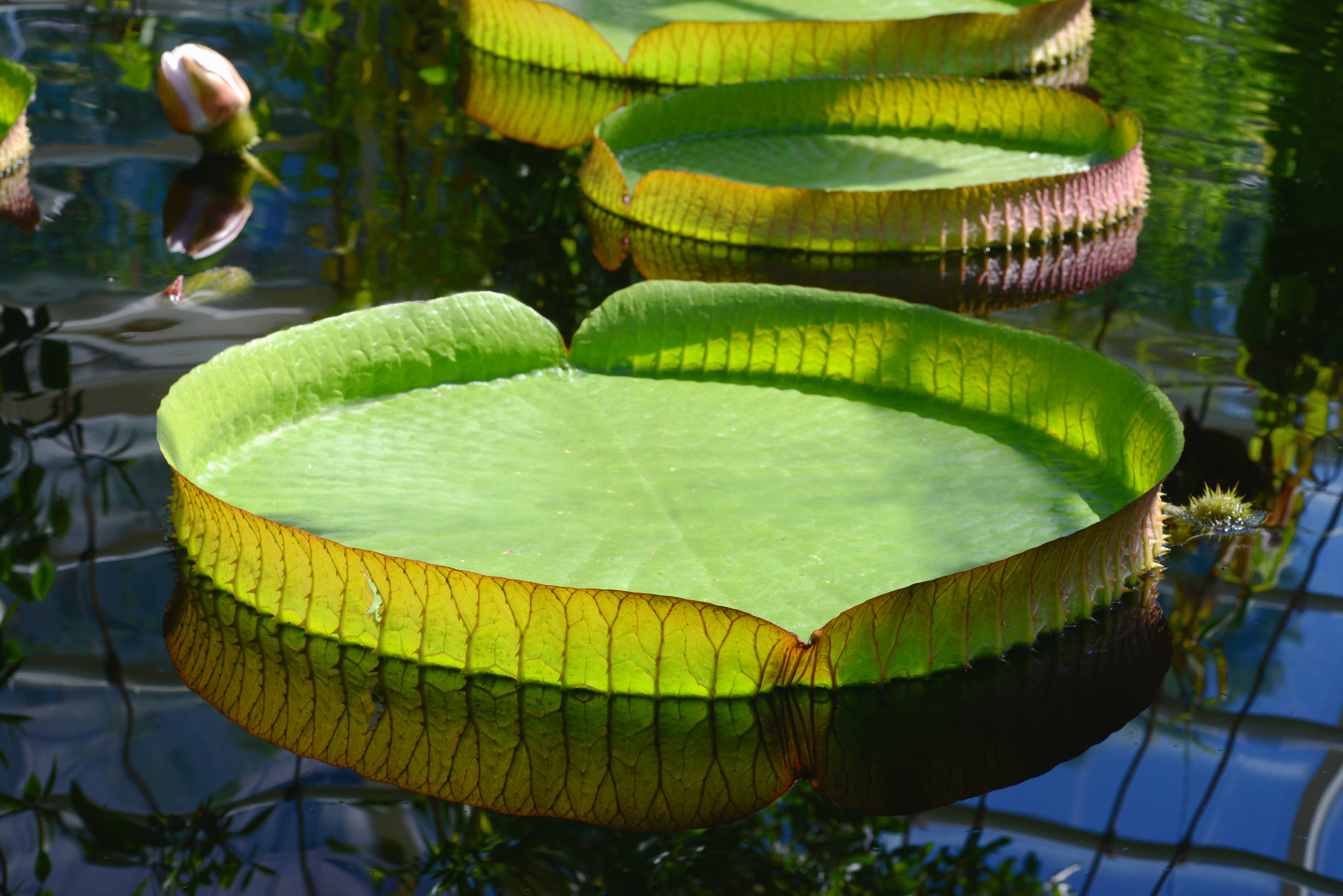 Leaf of a Santa Cruz water lily (Victoria cruziana). Botanical Garden of Helsinki, Finland.